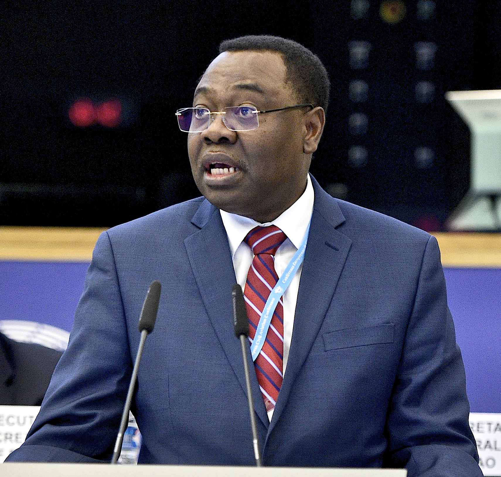 ECAC-CEAC 36th Plenary (triennial) Session of the European Civil Conférence, Strasbourg 10/11 July 2018.